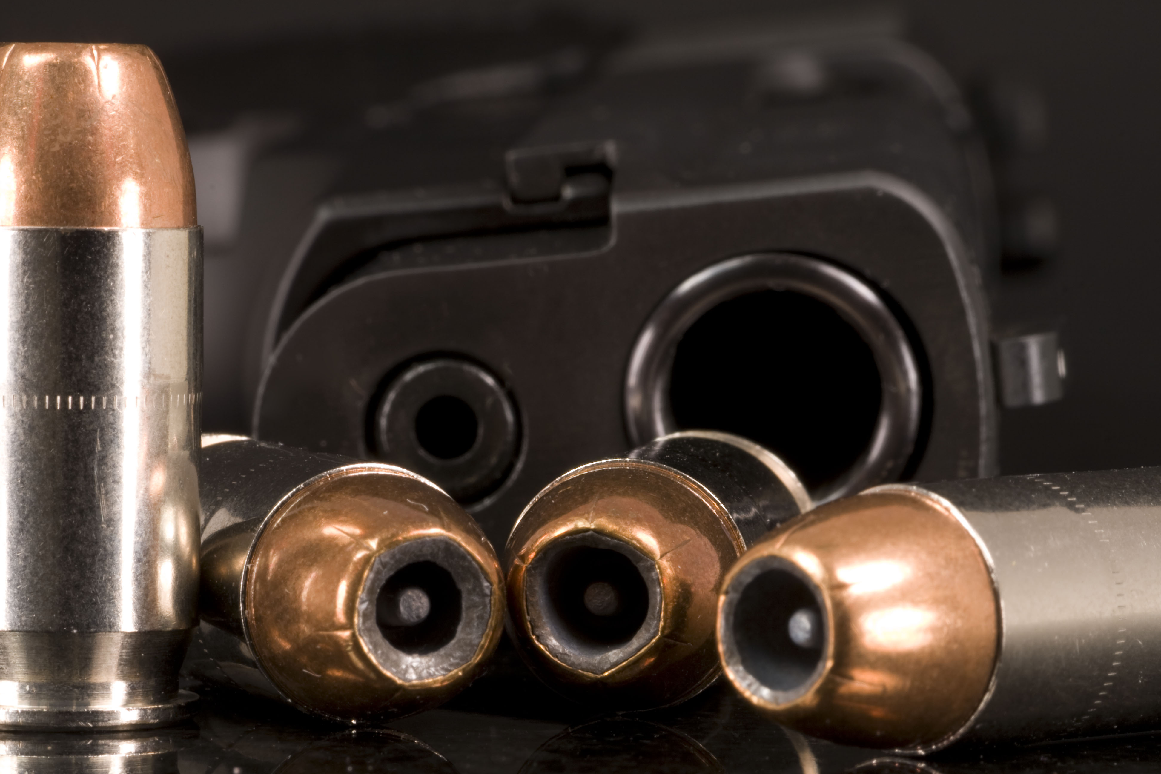 Experimenting with different techniques for lighting & composition of small, still-life arrangements. This slightly menacting composition shows the "business" end of the weapon (a SIG Sauer P220 45 ACP semiautomatic handgun) and four rounds - these are jacketed hollow-point rounds made by Federal. They feature a solid lead core that is jacketed in copper. Upon impact, the lead core expands and folds back on itself to increase the cross section and enhance the transfer of kinetic energy to the target.